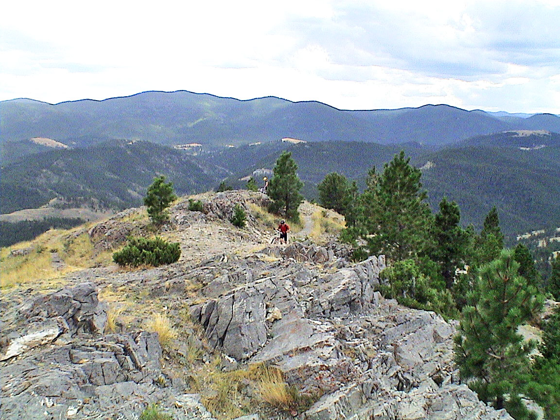 View of bicyclists approaching the summit of Mount Helena, in Mount Helena City Park in Helena, Montana, U.S. Digital enhancement includes adjustment of brightness, contrast, sharpness and (because it was cloudy) saturation.